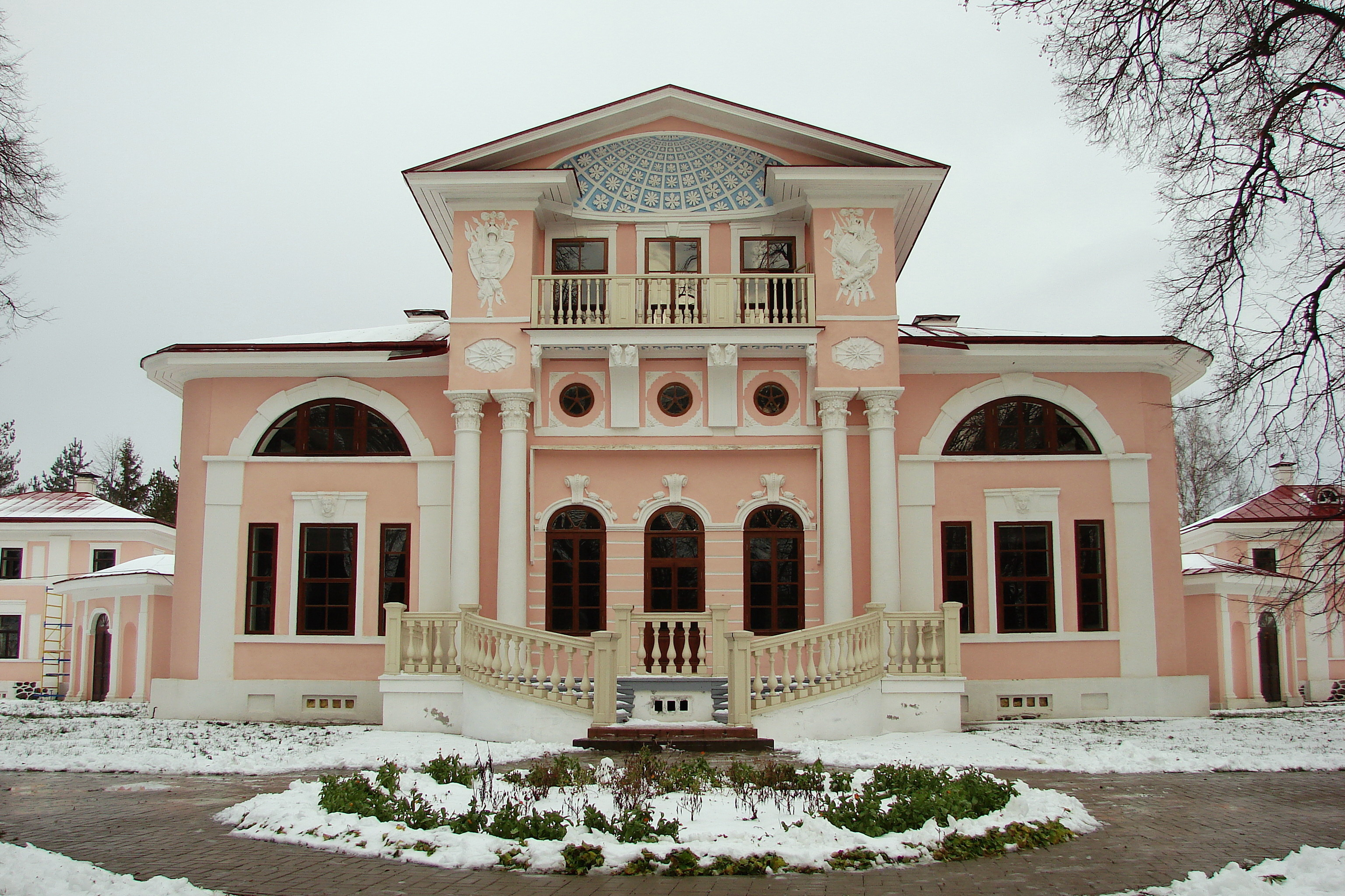 Russia, Vologda Oblast, Gryazovetsky District, Country estates «Pokrovskoe»